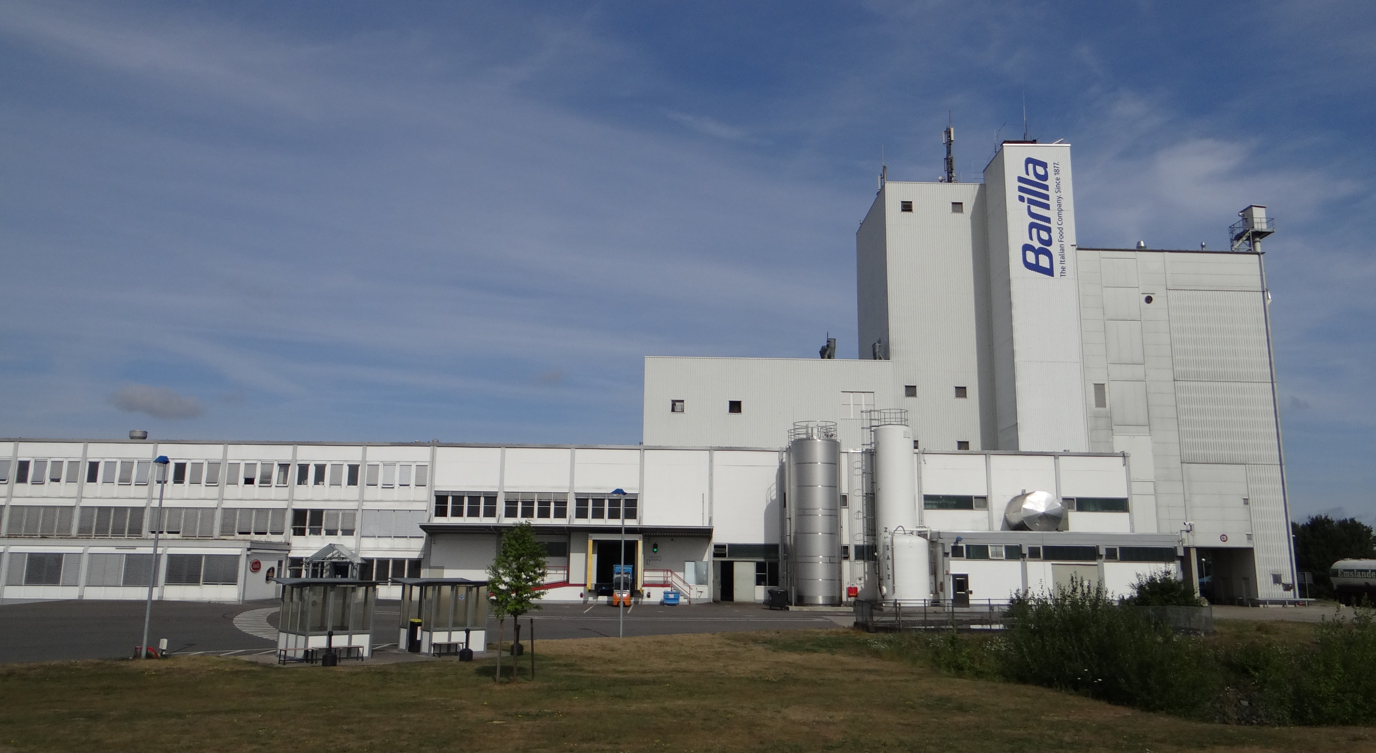 Bakery Barilla ("Wasa") in Celle, Germany.